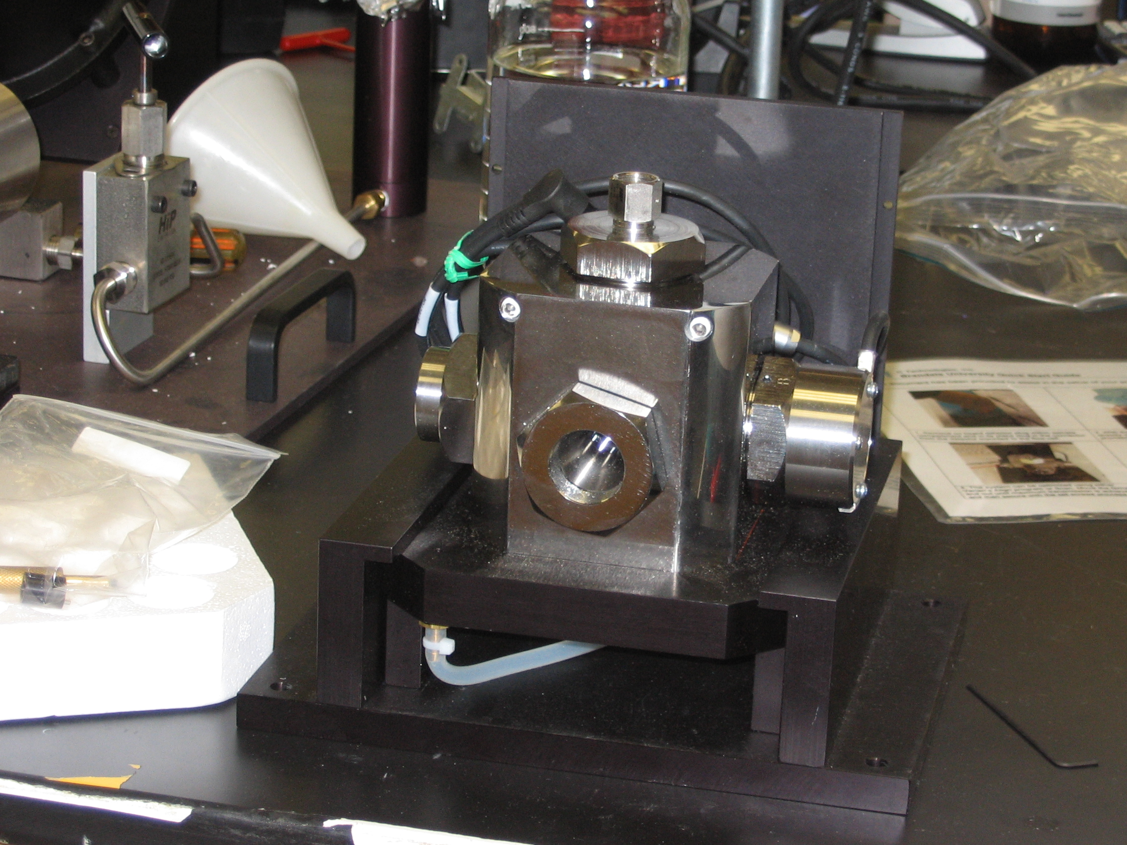 A system for studying enzyme activity under high pressure.